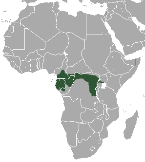 Grey-cheeked Mangabey (Lophocebus albigena) range